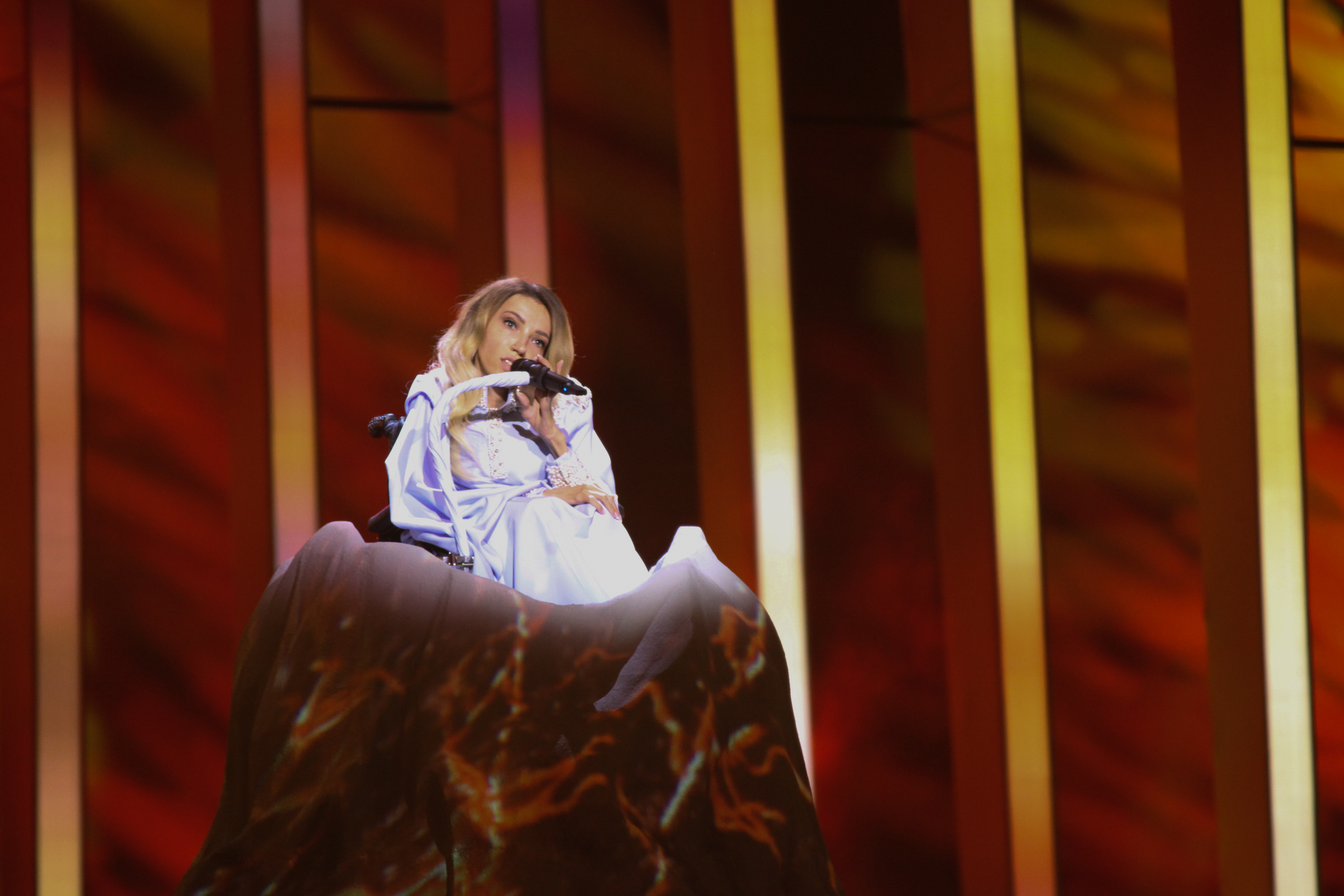 Julia Samoylova representing Russia with the song "I Won’t Break" during a rehearsal before the second semi final of the Eurovision Song Contest 2018 in Lisbon.